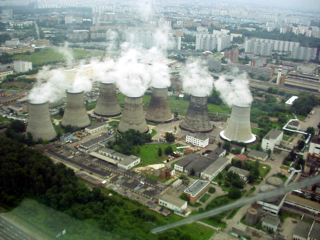 Moscow Power Plant 21 in Korovino, the Cooling Towers